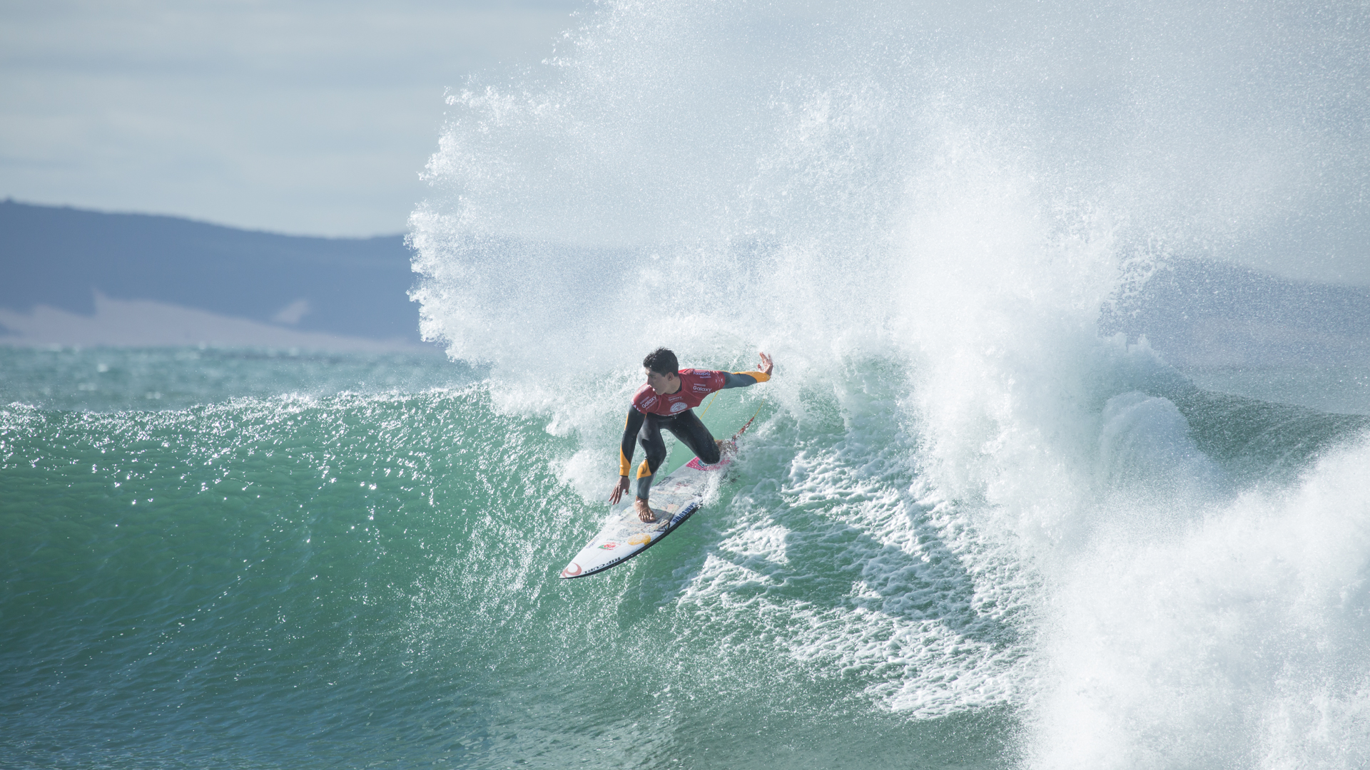 Gabriel Medina at the 2015 JBay Open